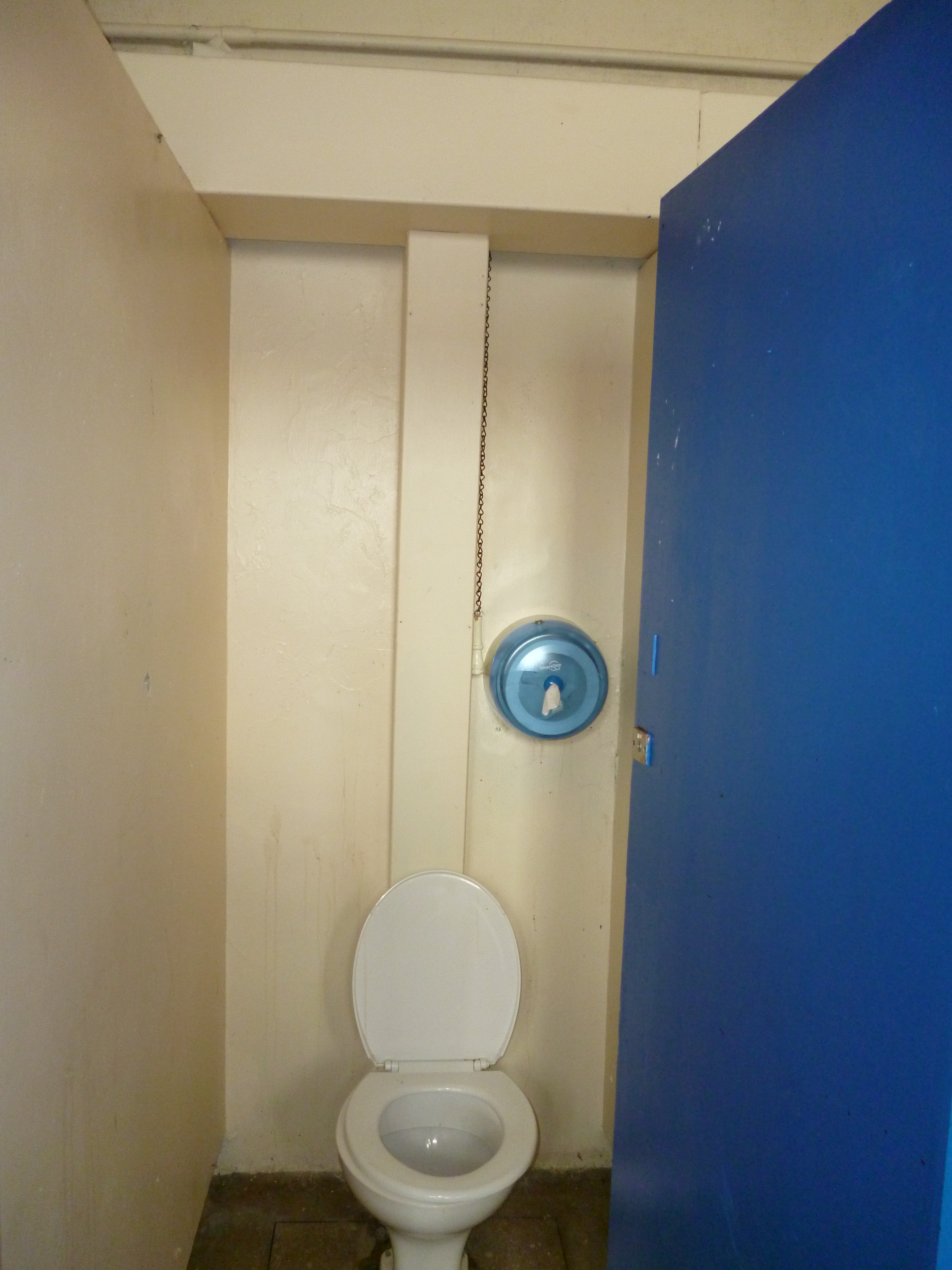 Another Trough Cistern that can be found in Plymouth, Devon. Here the chain is longer than normal and the pipes have been boxed in.